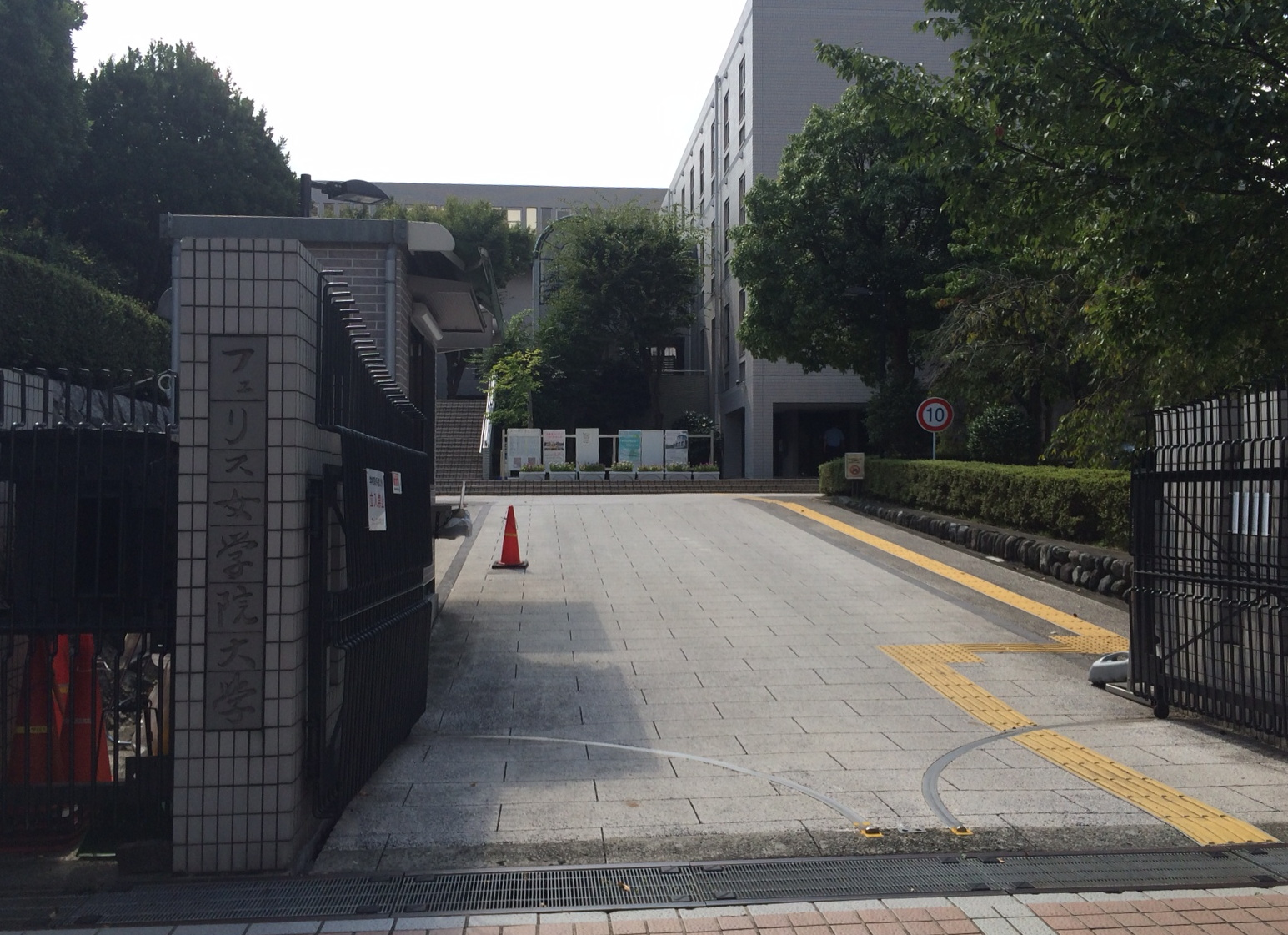 Ferris University gate